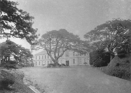 Japan Central Military Preparatory School